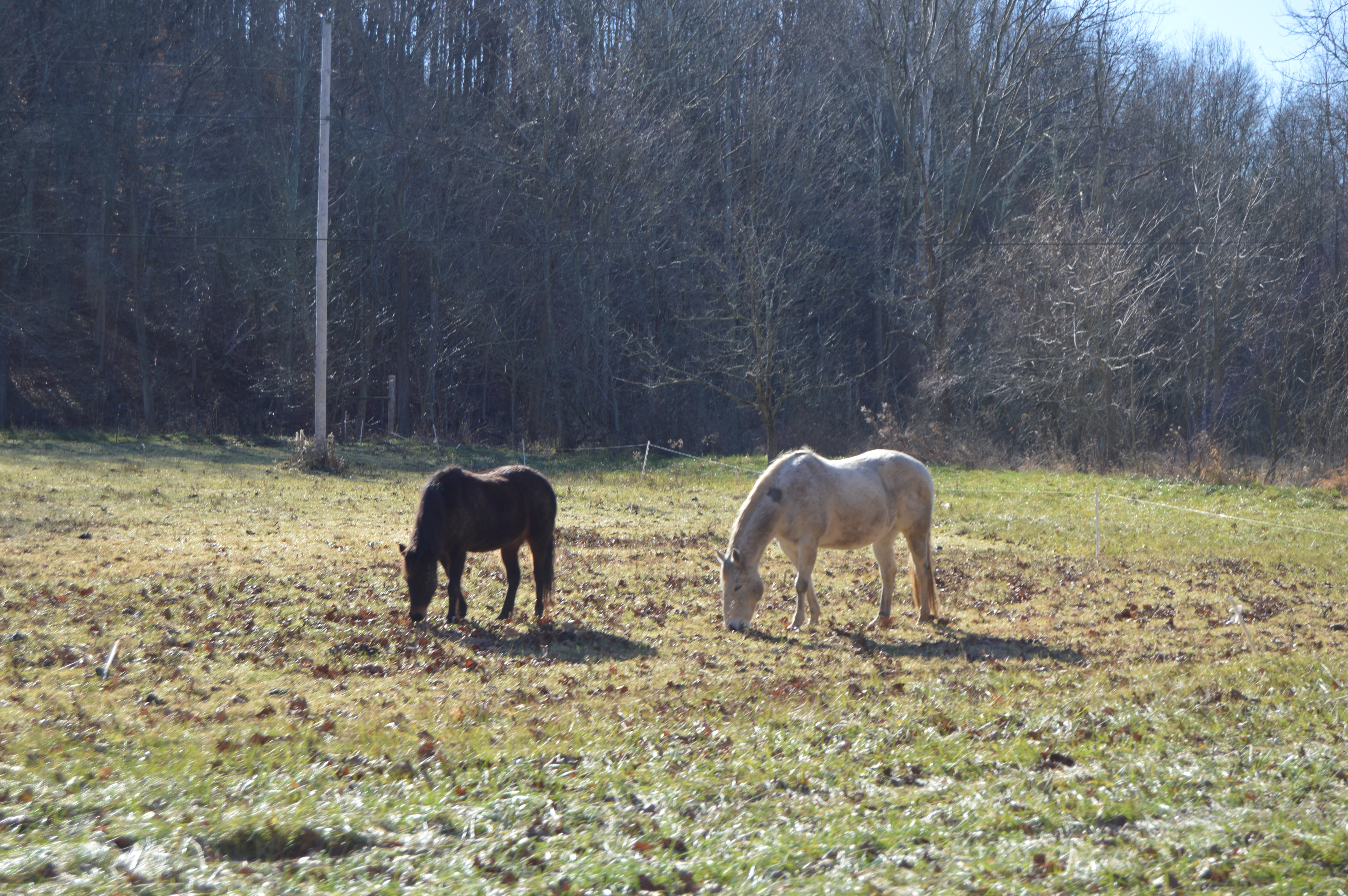 Horses on pasture along Salt Run Road east of Caldwell in far northern Olive Township, Noble County, Ohio, United States.